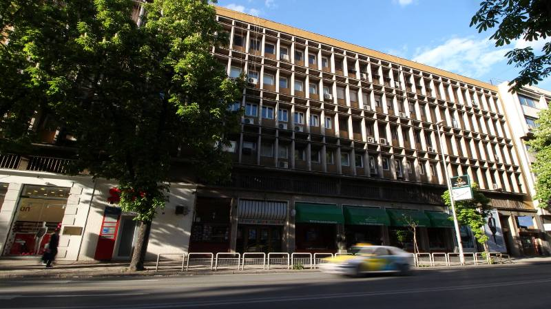 Административен објект на арх. Драган Томовски во Скопје